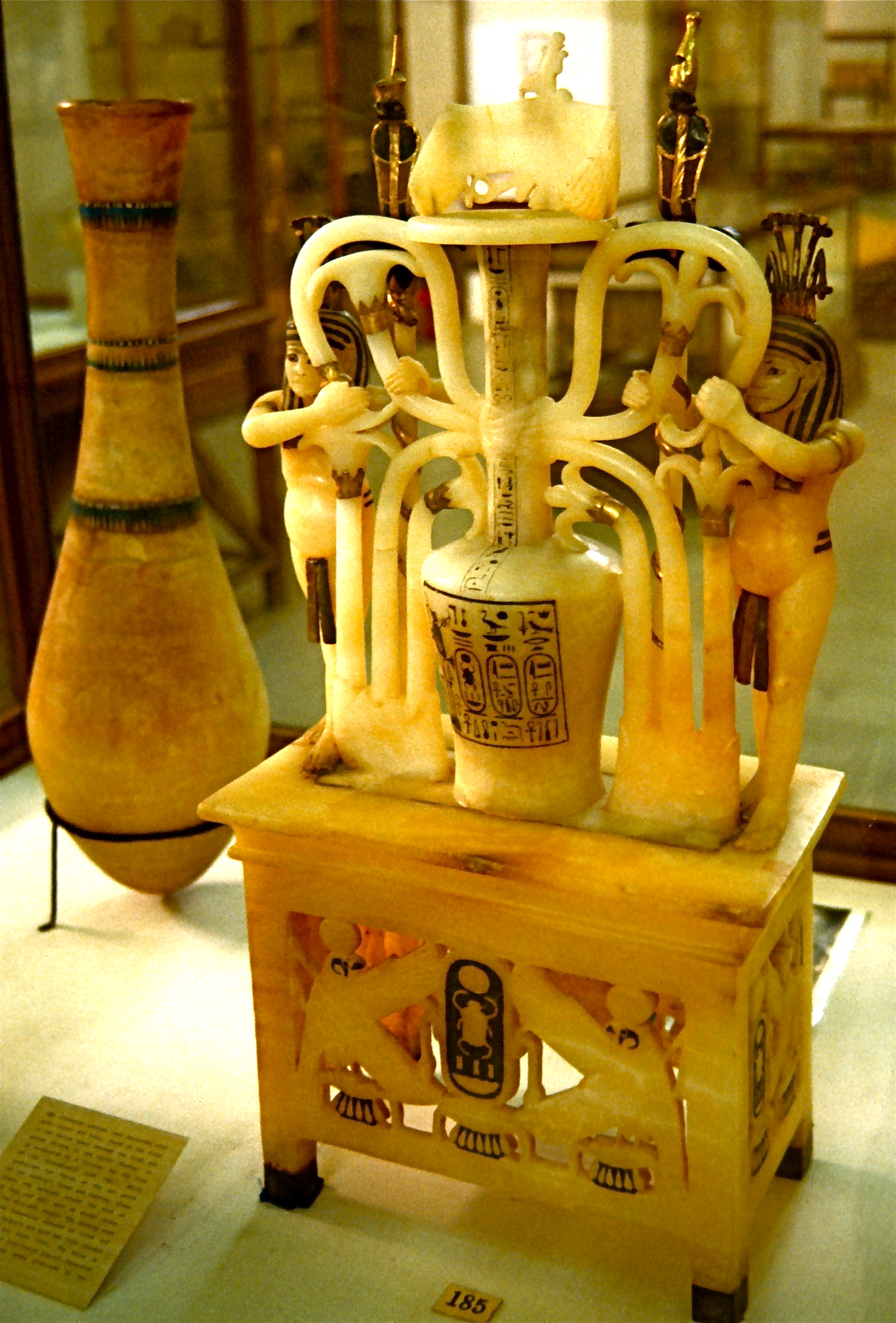 An exquisite alabaster perfume jar from the tomb of Tutankhamun in the Cairo Museum. Found between the two outer shrines of Tutankhamun's burial was this perfume vase, made of four pieces of alabaster cemented together. The idea conveyed by its symbolism is that the Nile will provide the king and queen, whose names are inscribed on the vase, with its contents. The vulture with the so-called atef crown on its head represents either Mut or Nekhbet protecting the perfume. Flanking the vase are two deities with pendulous breasts and potbellies, both named Hapi, who personify the Nile and its fertility. They are differentiated by the lily and papyrus clusters on their heads as Hapi of Upper Egypt and Hapi of Lower Egypt.